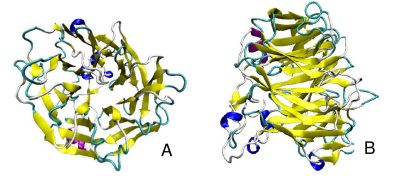 Secondary structure model using Visual Molecular Dynamics (VMD) software